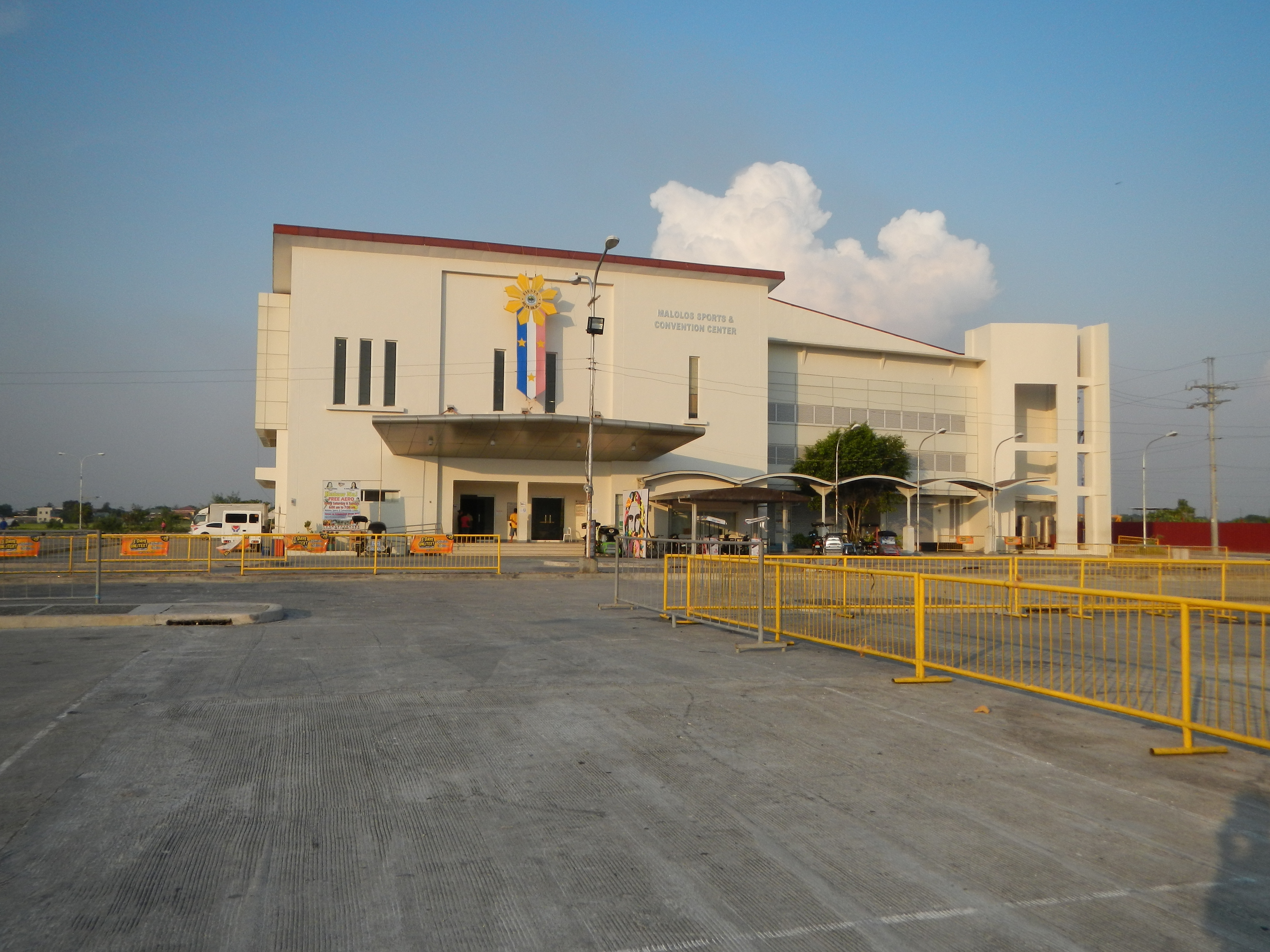 Malolos Sports and Convention Center, Basketball Sports Stadium, Convention Center, and Athletics & Sports 10 hectares Proclamation No. 597 April 2, 2004 geographical coordinates: 14° 50' 36" North, 120° 50' 18"East Inaugurated June 25, 2010, in MacArthur Highway in Barangay Bulihan, Malolos City.